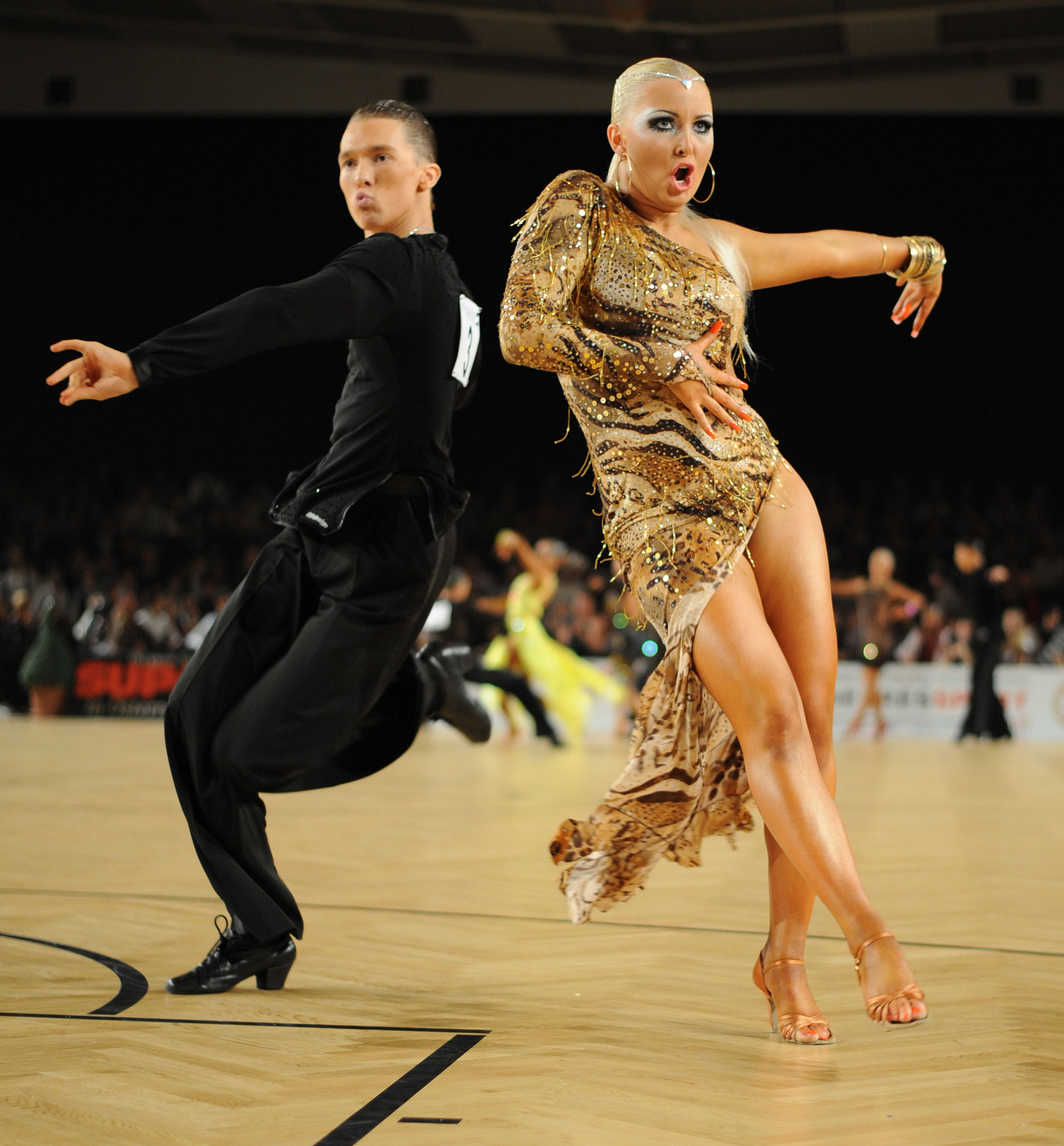 Austrian Open Championships Vienna, 2012 WDSF World Dancesport Championships Latin 16.-18. November 2012